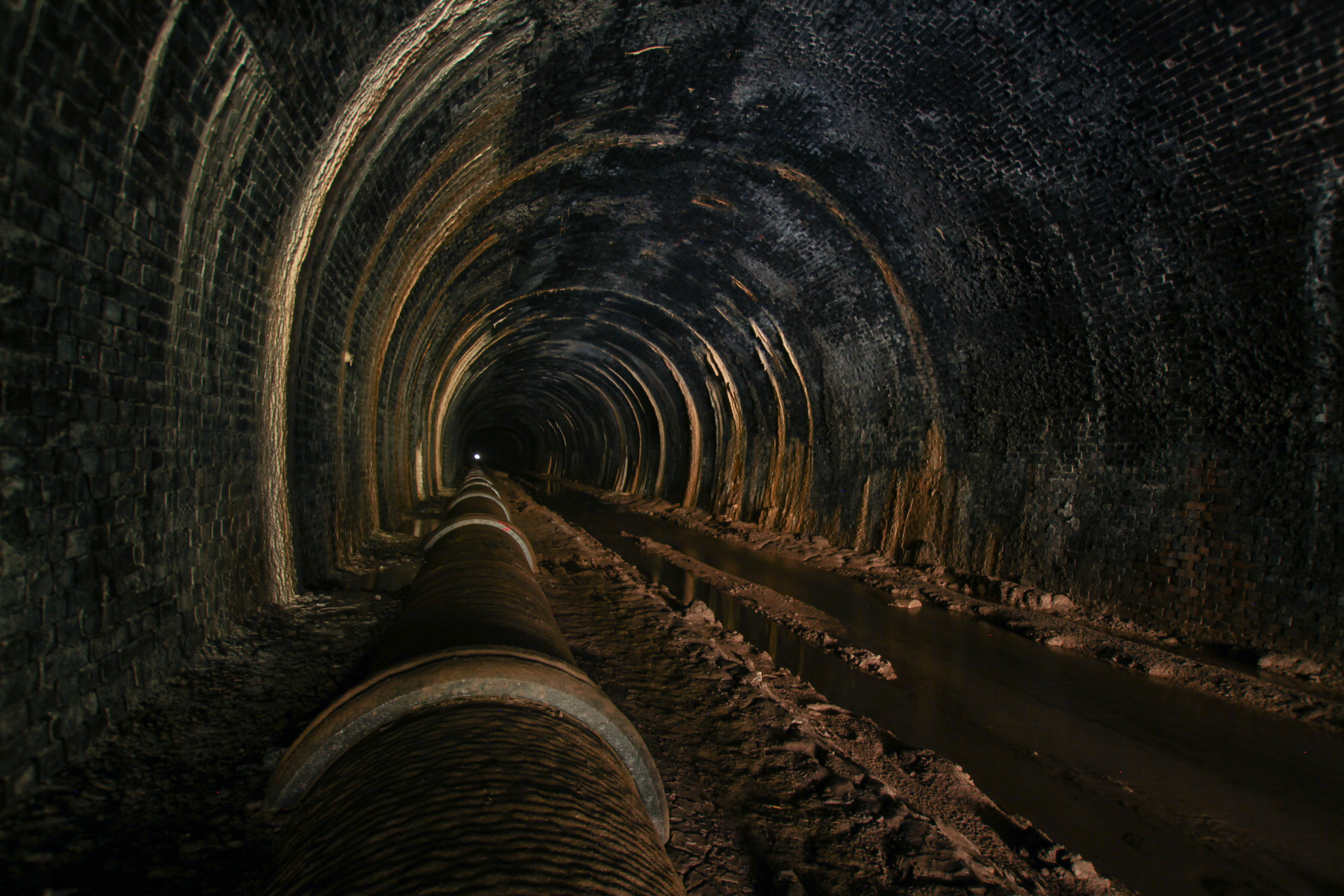 Interior of Wenvoe Tunnel on the defunct Barry railway